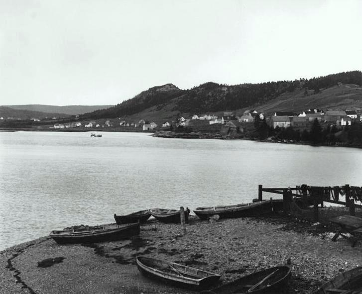 Photograph, Port Daniel from bridge, Gaspé Peninsula, QC, about 1900, Wm. Notman & Son, Silver salts on glass - Gelatin dry plate process - 20 x 25 cm